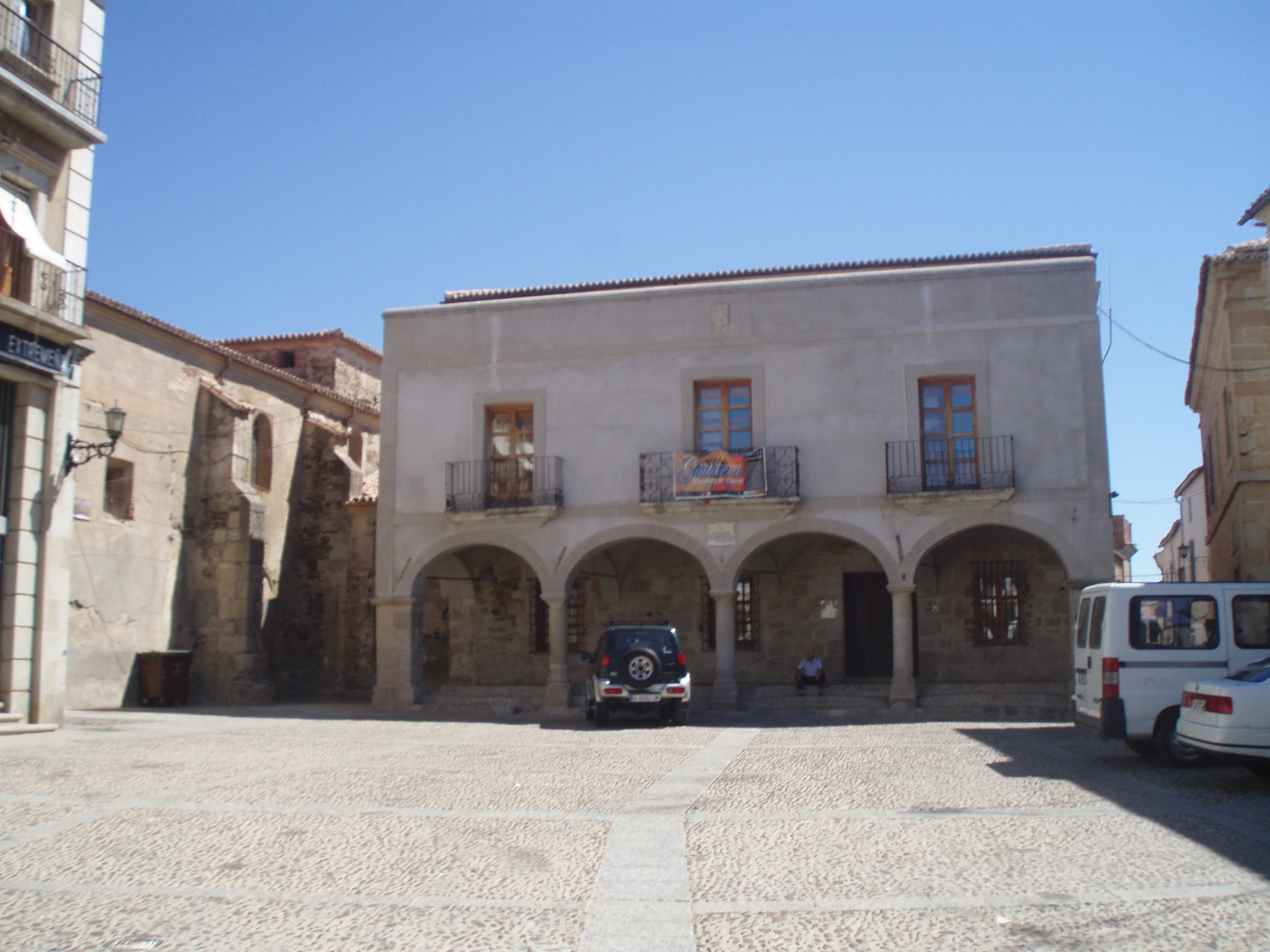 Coria, in the province of Caceres. (Spain).